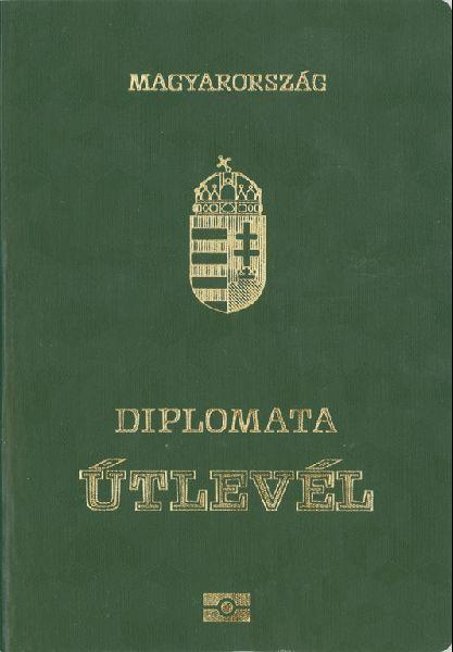 Cover of a Hungarian diplomatic passport. The passport contains 32 pages and was first issued on 29 August 2006.